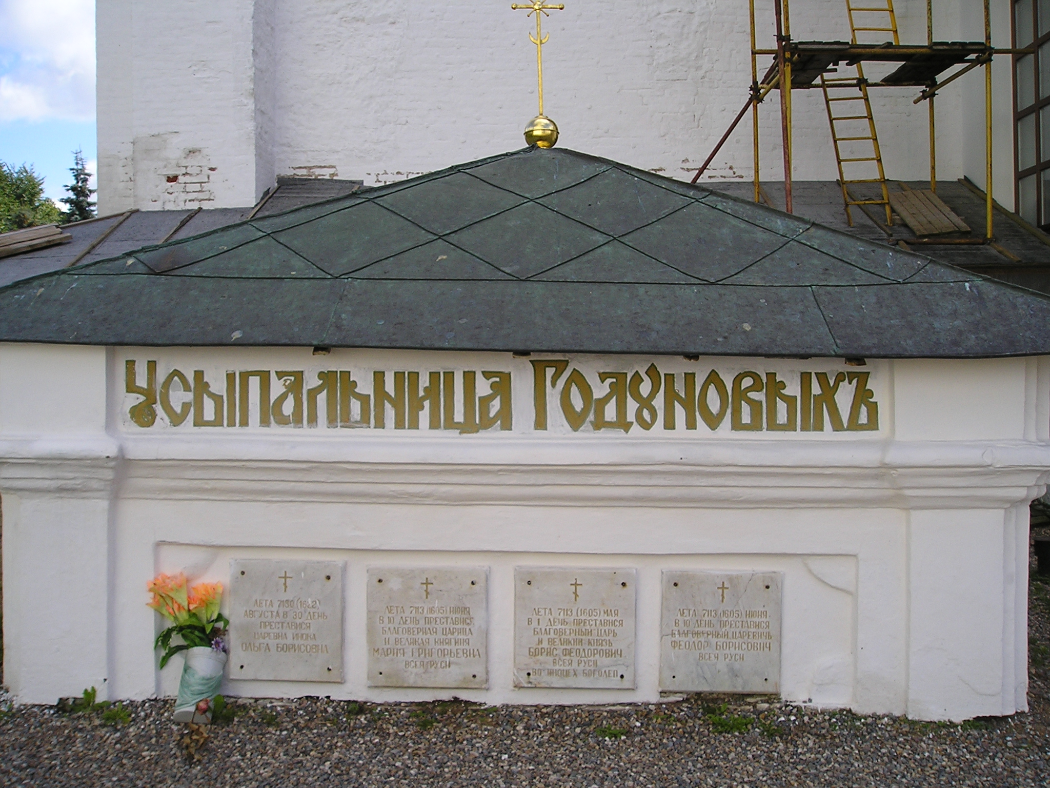 Royal Tombs in Serguey Rosad